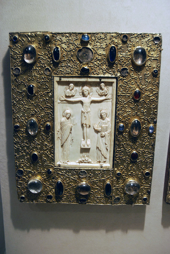 Book Cover with Byzantine Icon of the Crucifixion, before 1085 Byzantine (ivory); Spanish (setting) Silver-gilt with pseudo-filigree, glass, crystal, and sapphire cabochons, Ivory on wood support; Overall: 10 3/8 x 8 5/8 x 1 in. (26.4 x 21.9 x 2.5 cm) The Metropolitan Museum of Art, New York, Gift of J. Pierpont Morgan, 1917 (17.190.134) View at the Metropolitan Museum of Art website Wikipedia Loves Art at the Metropolitan Museum of Art This photo of item # 17.190.134 at the Metropolitan Museum of Art was contributed under the team name "Random_Variables" as part of the Wikipedia Loves Art project in February 2009. Metropolitan Museum of Art The original photograph on Flickr was taken by philophilosopher—please add a comment to the original Flickr page whenever a use has been made on Wikipedia or another project. Project galleries on Flickr: this institution, this team